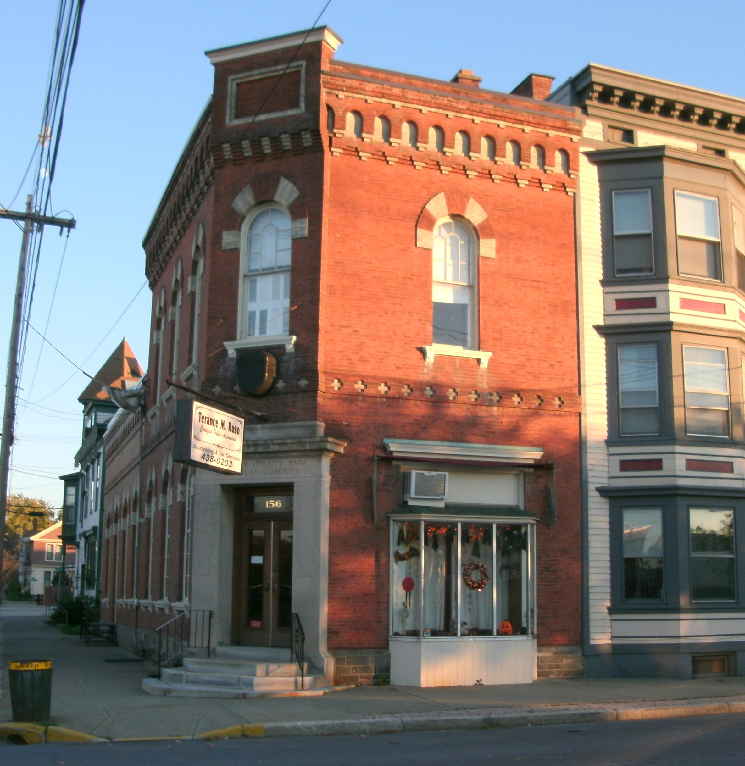 GE DIGITAL CAMERA Rensselaer, New York